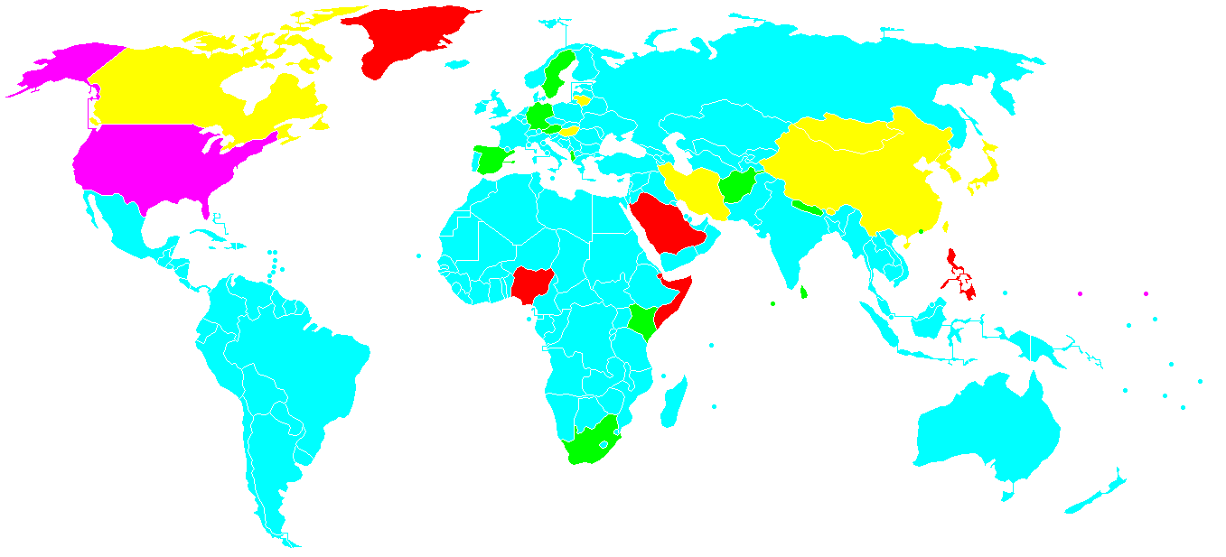 Date format by country. Map showing which countries primarily use which endian date format. Colors for base formats CMY, mixing using CMYK color model. #ff0 YMD - YearMonthDay (used internationally as ISO 8601) - Big-endian #0f0 YMD and DMY #0ff DMY - DayMonthYear - Little-endian #f00 DMY and MDY #f0f MDY - MonthDayYear - Middle-endian #00f YMD and MDY